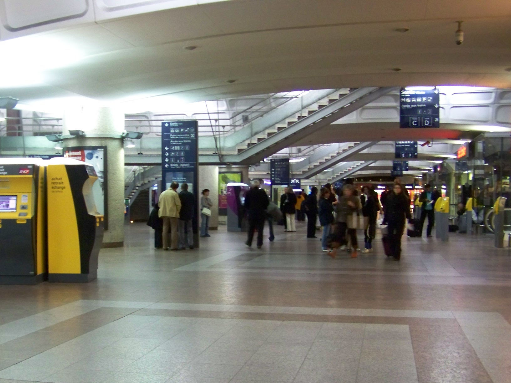 Below the platforms, hall of Lyon-Part-Dieu station, in Rhône, France in the evening.